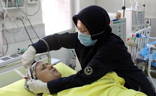 Iranian Nurse - Nursing